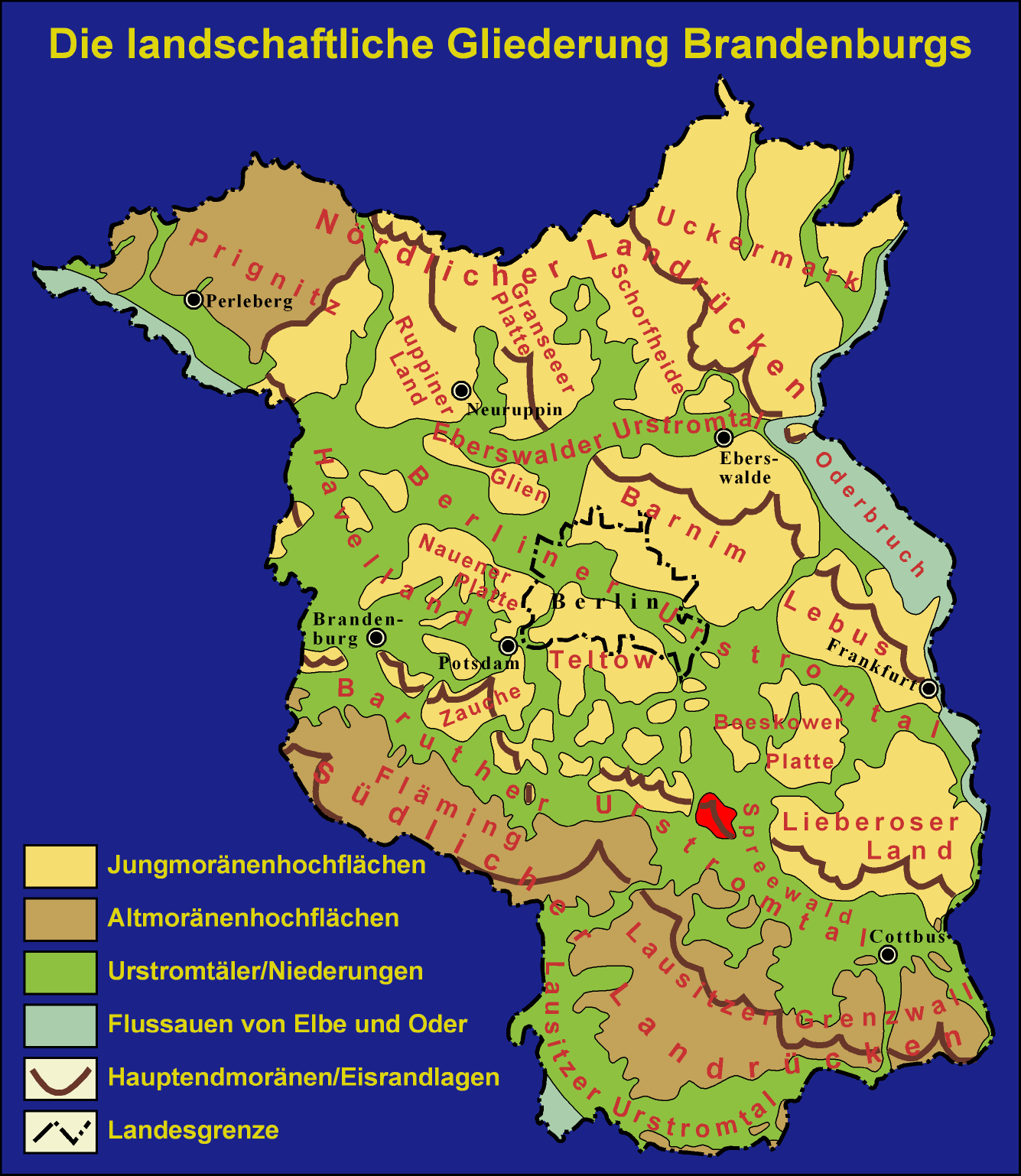 Location of the Krausnick hills (marked in red) in Brandenburg, Germany